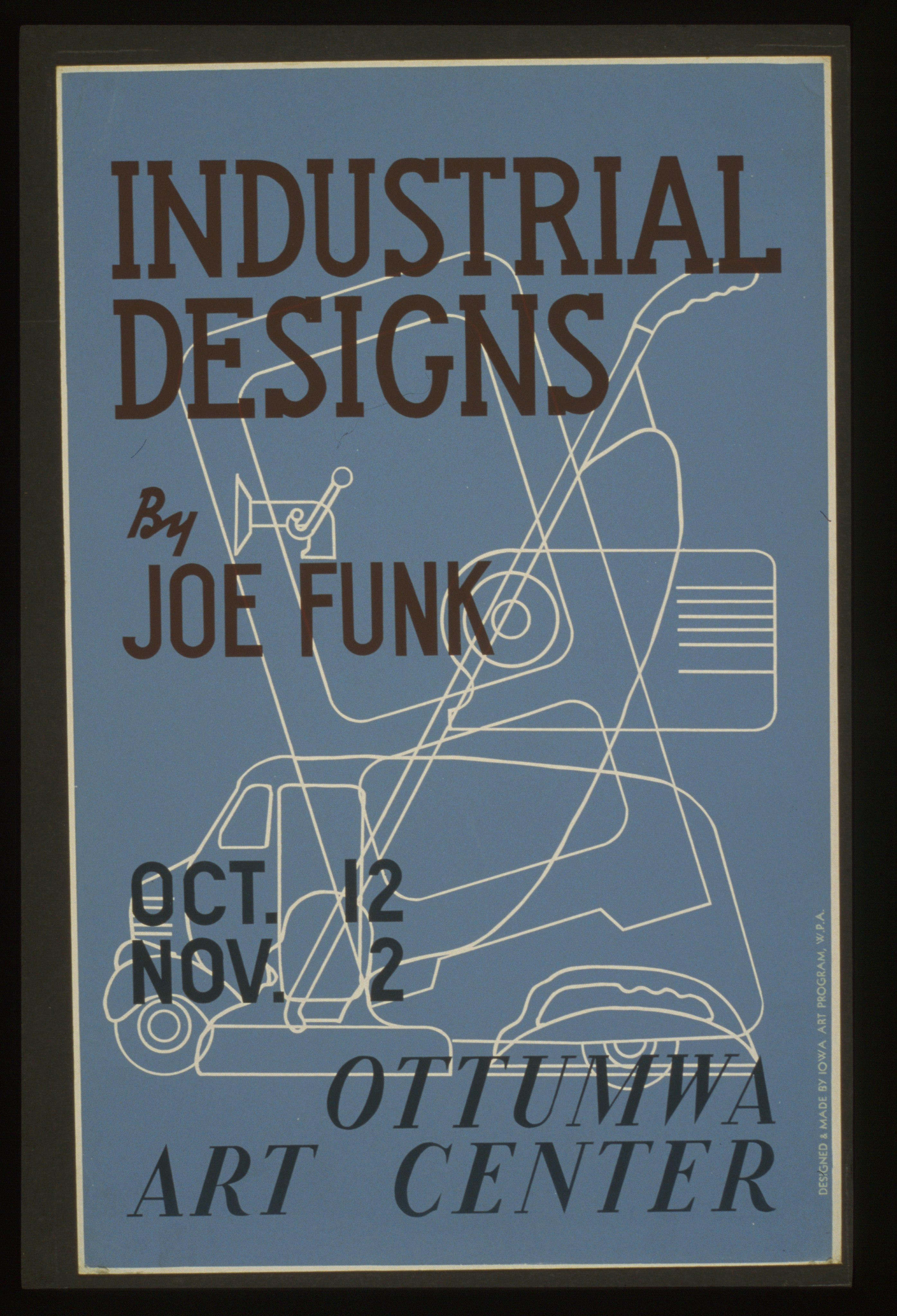 Title: Industrial designs by Joe Funk, Ottumwa Art Center Abstract: Poster for exhibition of industrial designs at the Ottumwa Art Center, showing arrangement of several manufactured items. Physical description: 1 print on board (poster) : silkscreen, color. Notes: designed & made by Iowa Art Program, W.P.A.; Work Projects Administration Poster Collection (Library of Congress).; Date stamped on verso: Oct 29 1940.